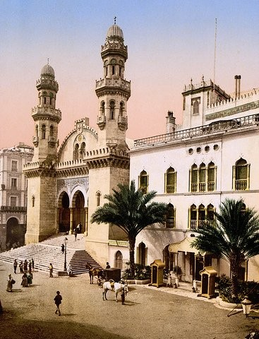 Cathedral Saint-Philippe Cathedral Saint-Philippe (built 1612) — in Algiers (1899). Photographed during the period when it was converted into the French colonial Cathedral Saint-Philippe d'Alger (1845-1962).